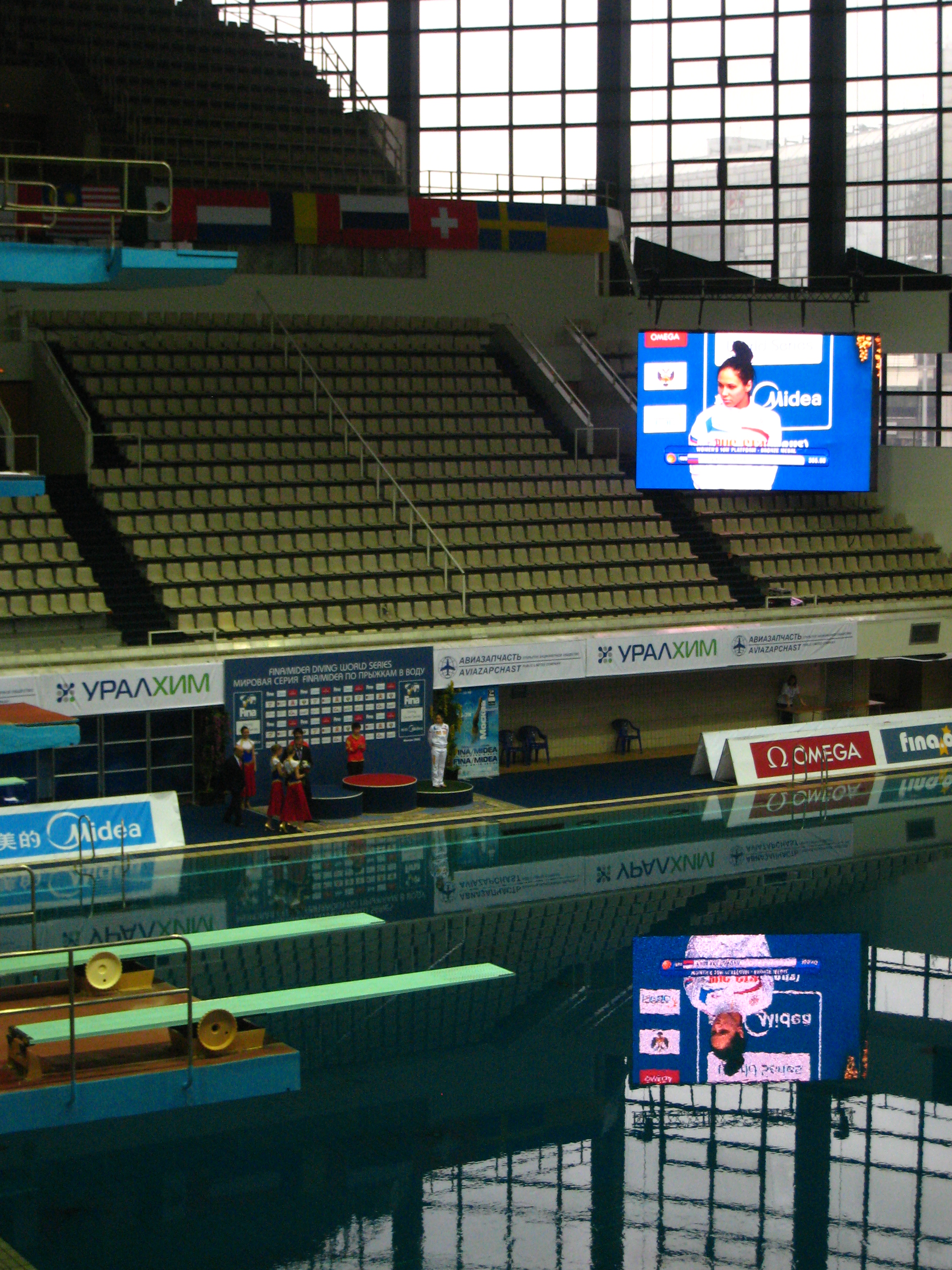 Third day of the 2013 FINA Diving World Series in Moscow. April 28, 2013.